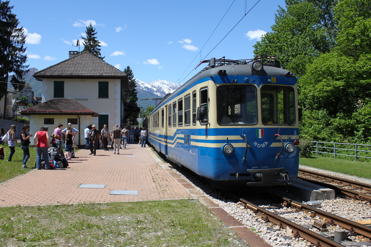 SSIF ABe 8/8 21 at Trontano.